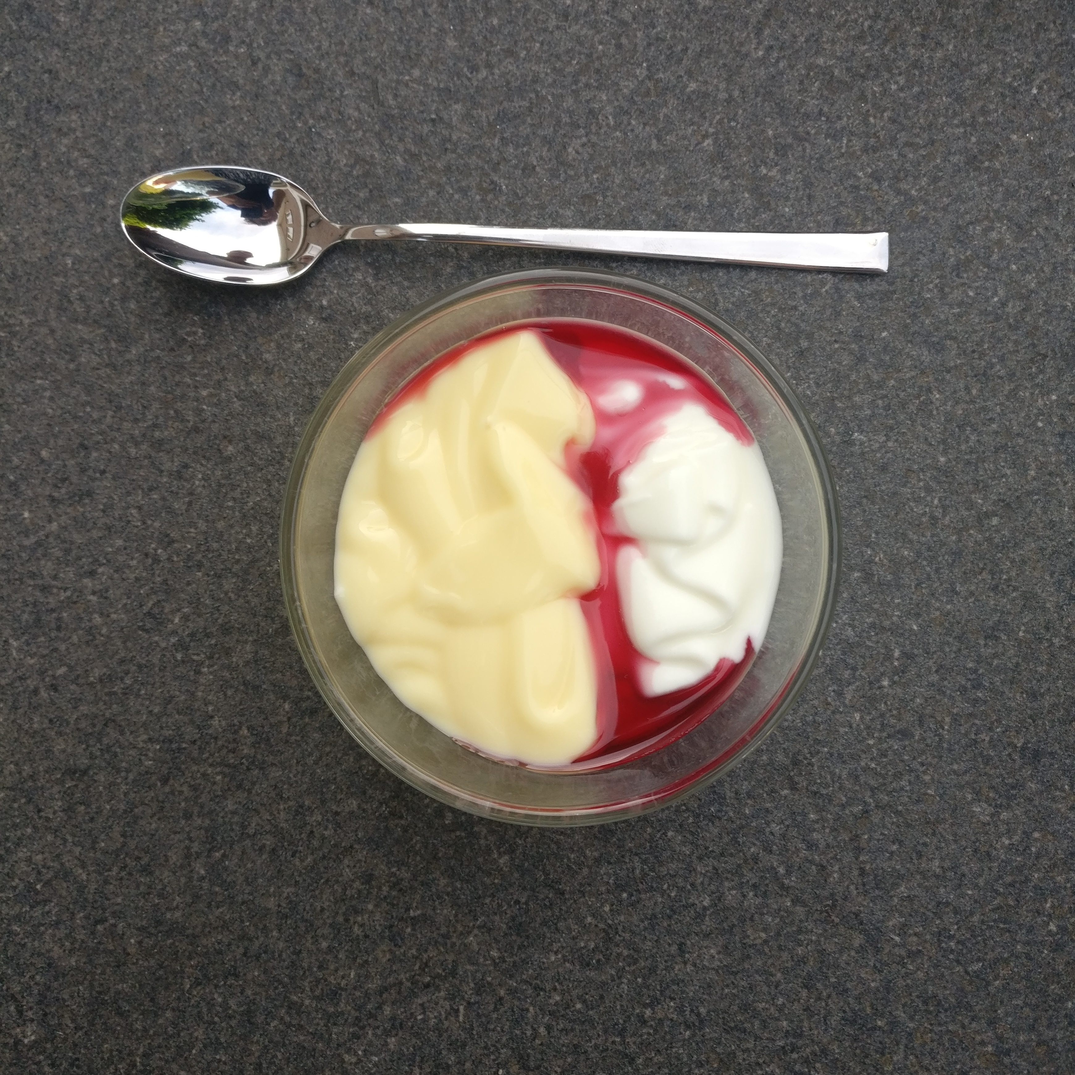 Dutch dessert with yoghurt, vanilla vla and limonade concentrate